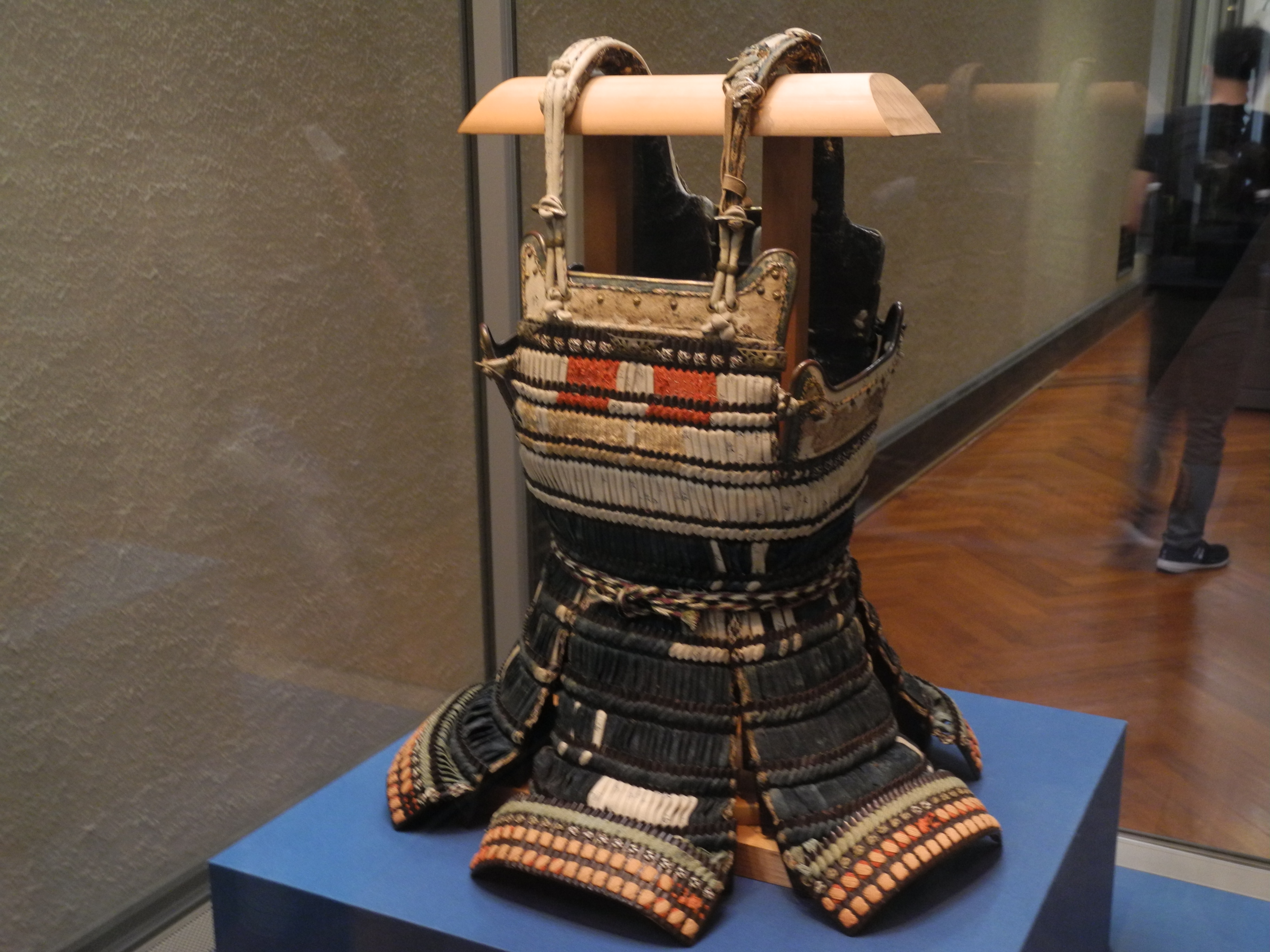 A haramaki armour which Nawa Nagatoshi donated to the Hinomisaki Shrine, Izumo, Shimane. Displayed at Tokyo National Museum. An Important cultural property of Japan.